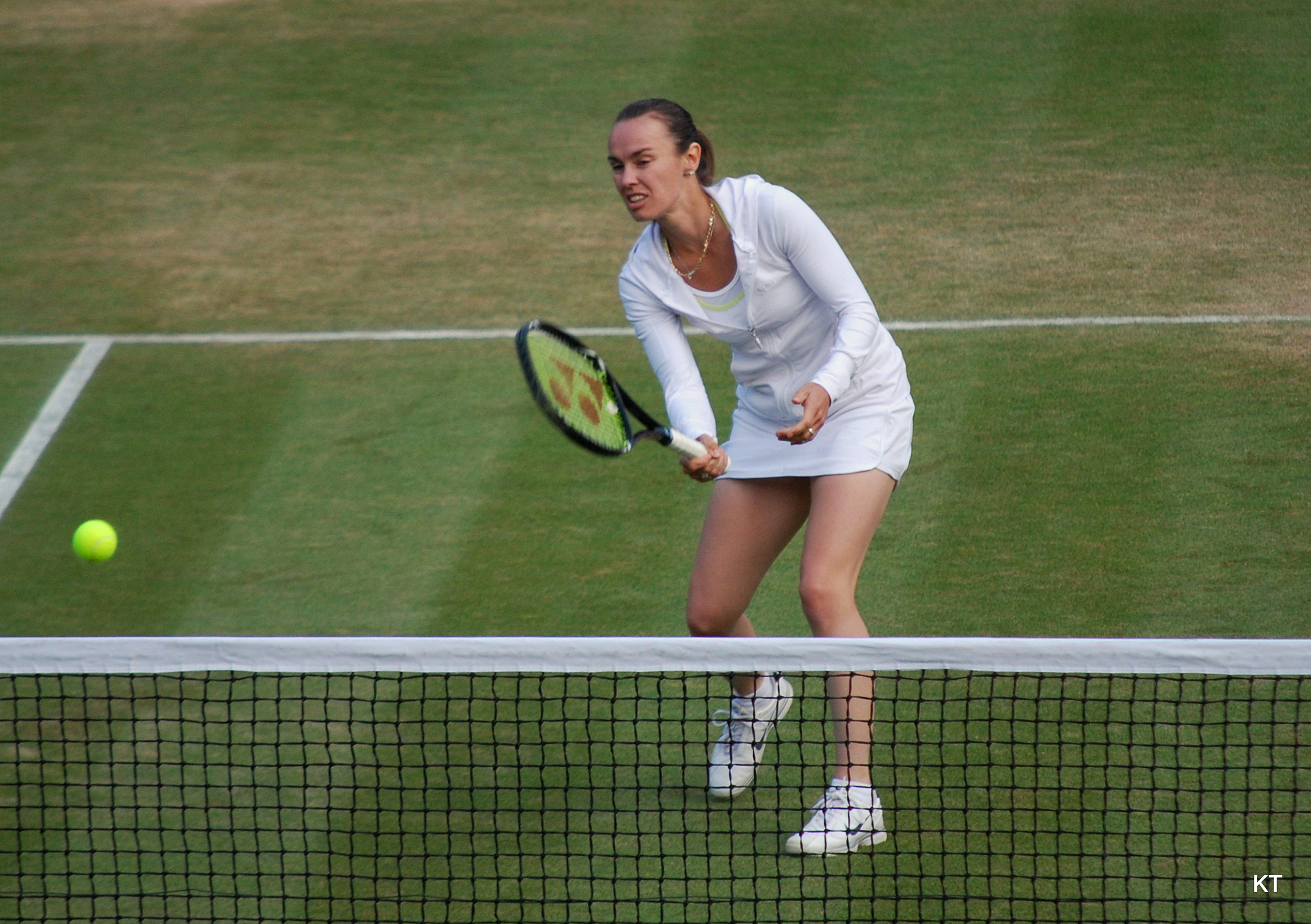 Ladies Invitation Doubles. Lindsay Davenport & Martina Hingis defeated Natasha Zvereva & Gigi Fernandez 6-2 6-2, and went on to win the title. Day 9 of Wimbledon 2011.